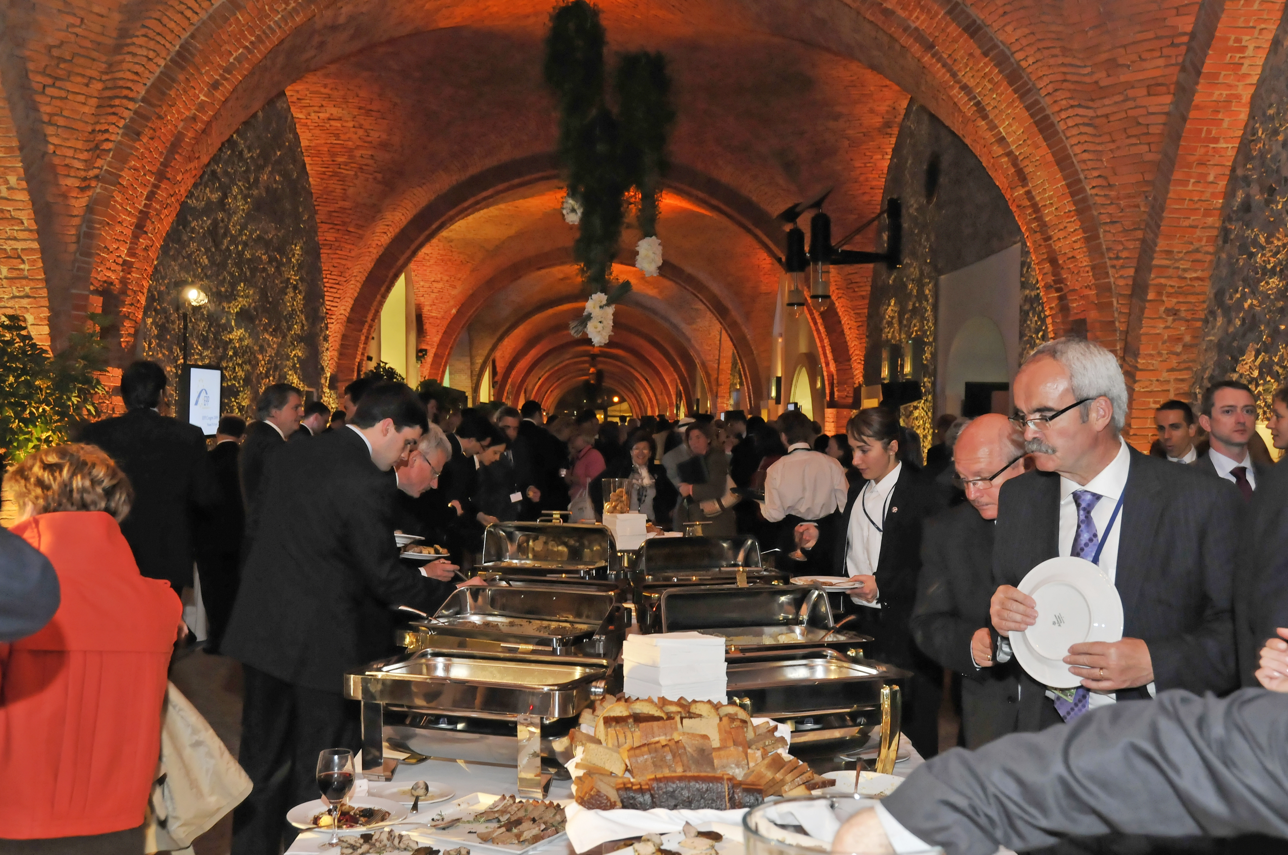 EPP Congress Warsaw